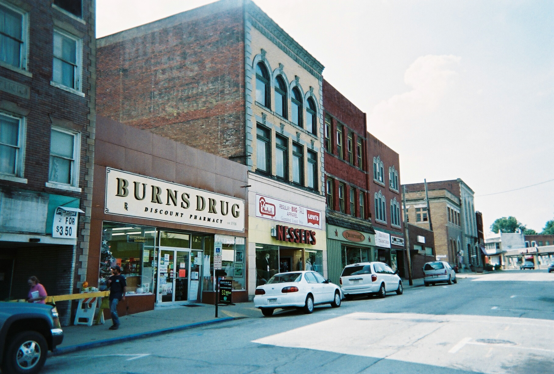 Downtown Scottdale, Pennsylvania (looking northwest on Pittsburgh Street)